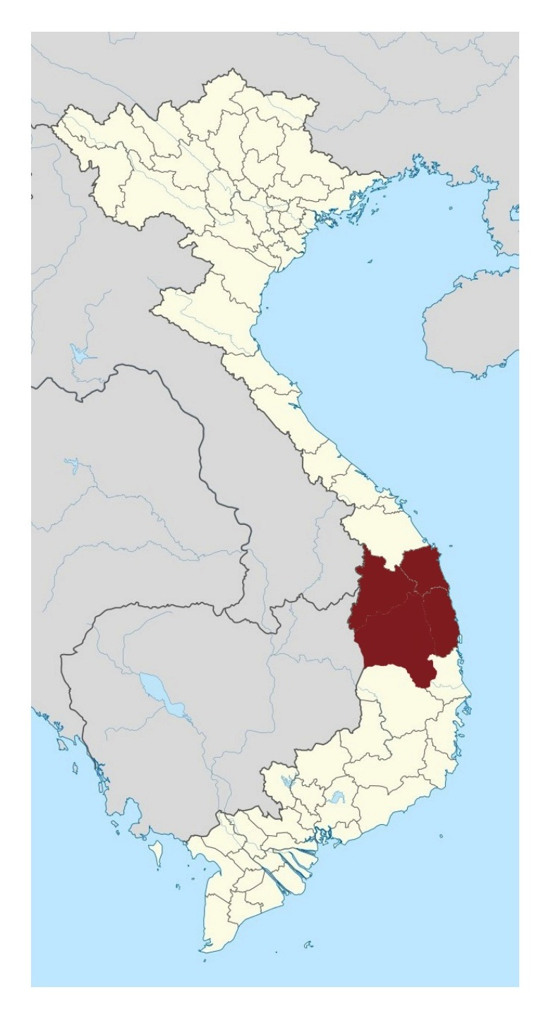 Bahnar people